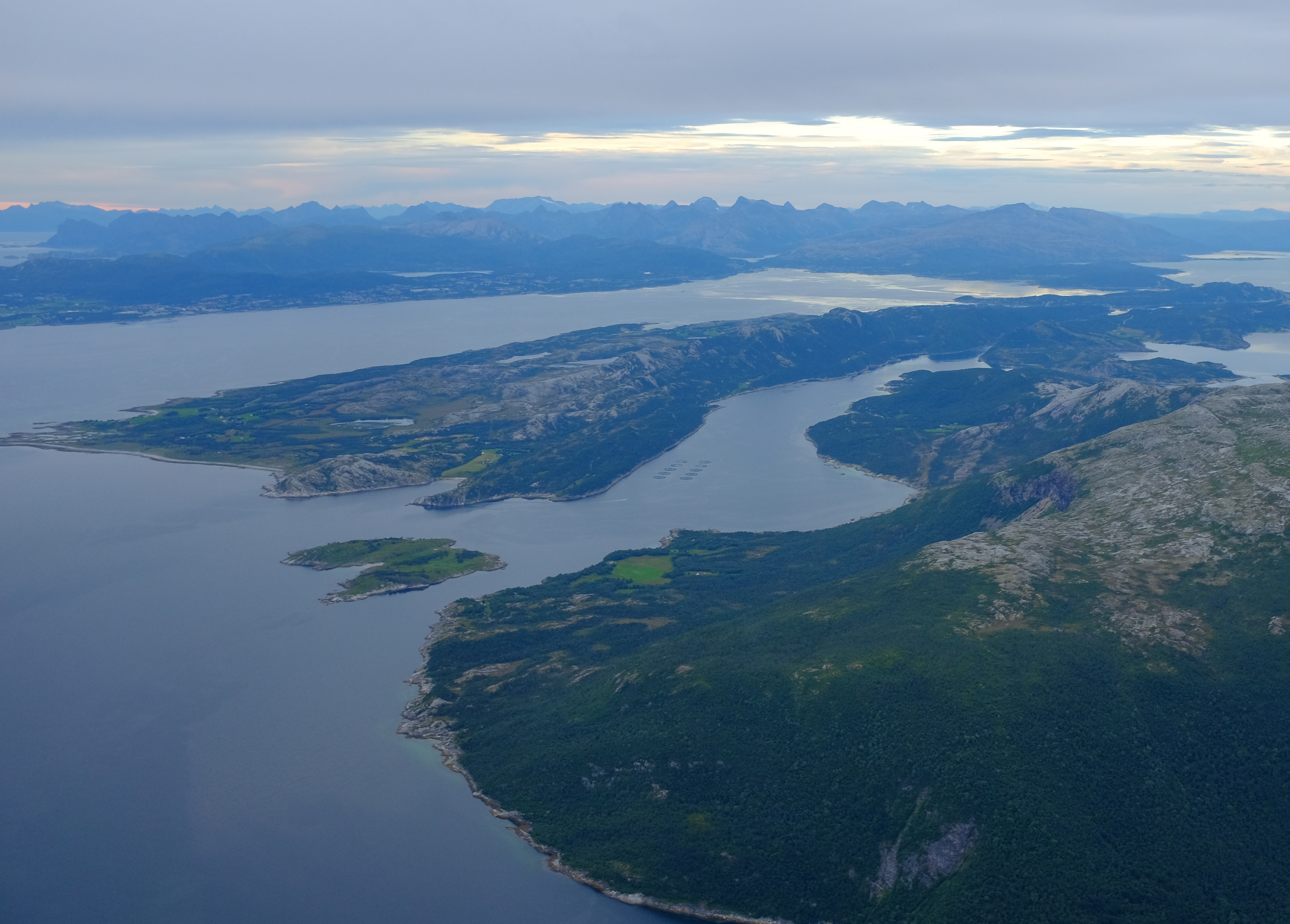 Seinesodden nature reserve located in Bodø municipality in Nordland, Norway. The nature reserve is located by the Seine on Straumøya.